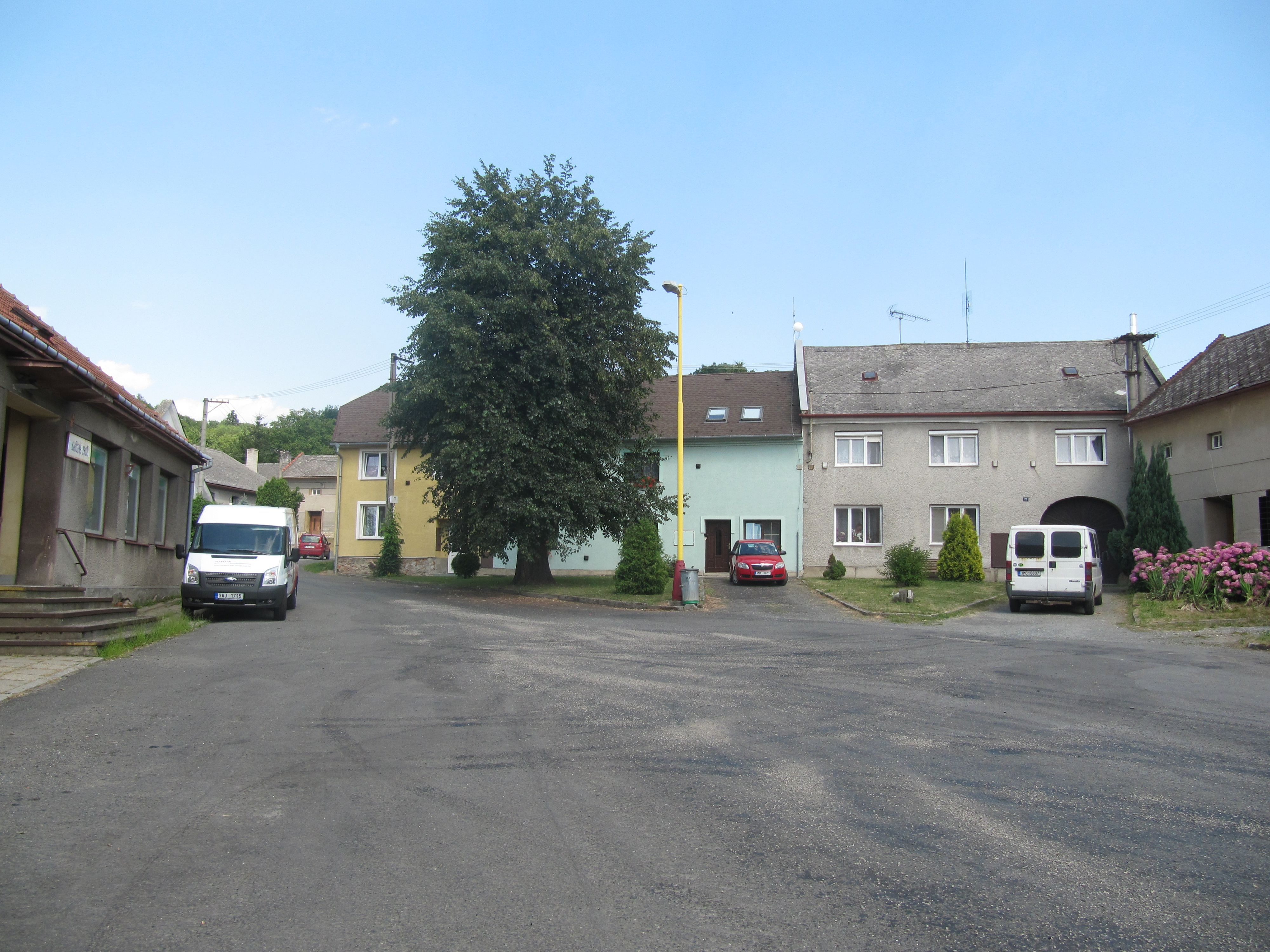 Přestavlky, Přerov District, Czech Republic.